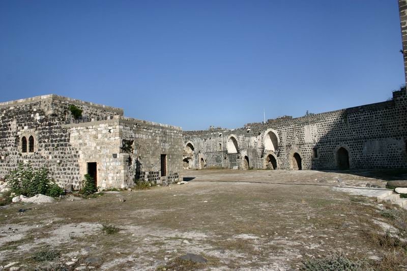 Margat, eigenes Foto von 2004, public domain